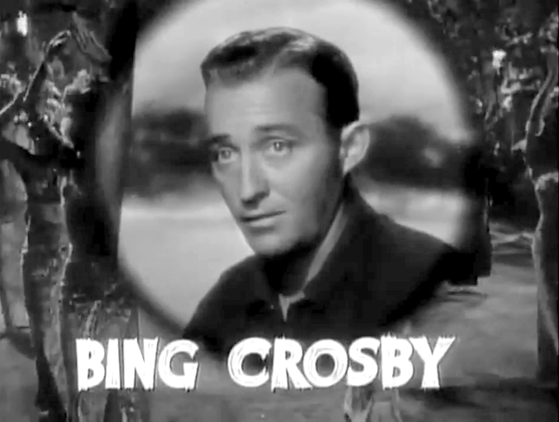 Cropped screenshot of Bing Crosby from the trailer for the film Road to Singapore.